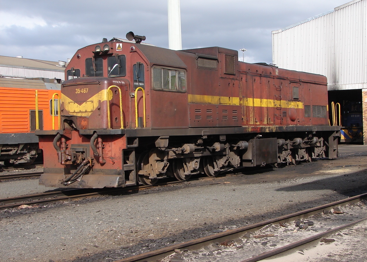 South African Class 35-400 35-467 Builder's Number: GE 41316 Type: GE U15C Location: Bellville, Cape Town, Western Cape